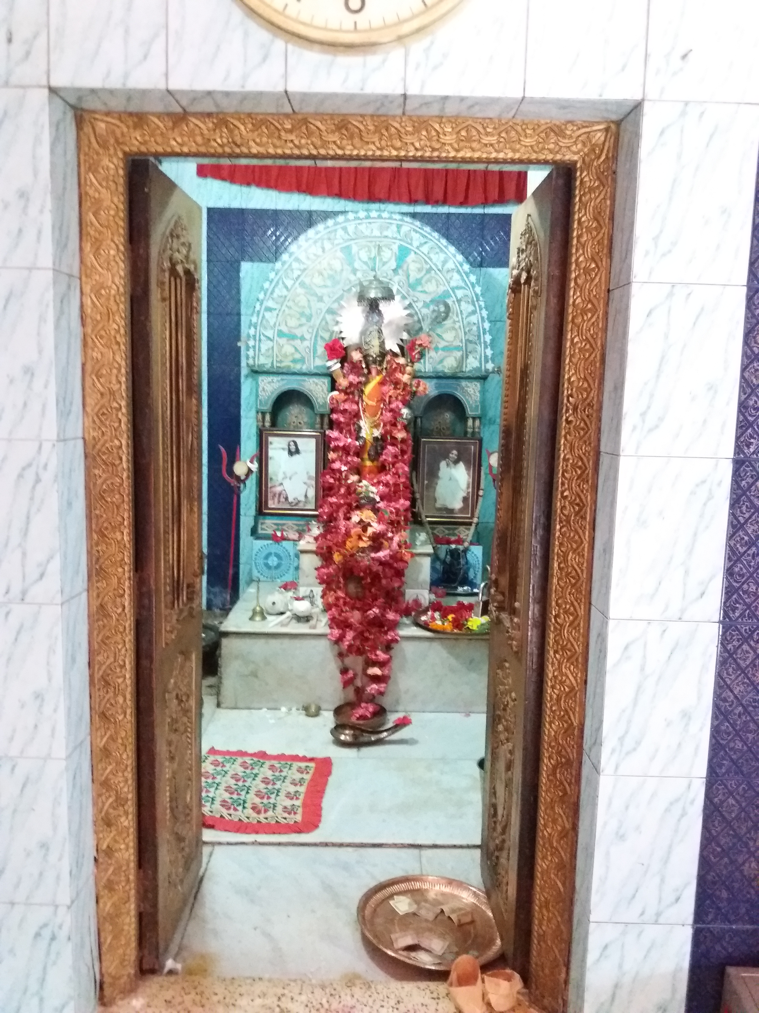 ঢাকার প্রাচীন সিদ্ধেশ্বরী মন্দিরে কালীর বিগ্রহ